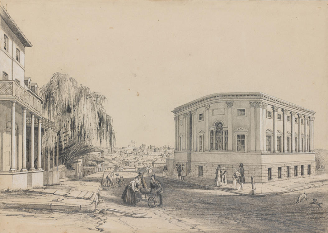 The Australian Subscription Library, built 1843-5, Sketches of Sydney, 1843-1847, Jacob William Jones, DGA 32